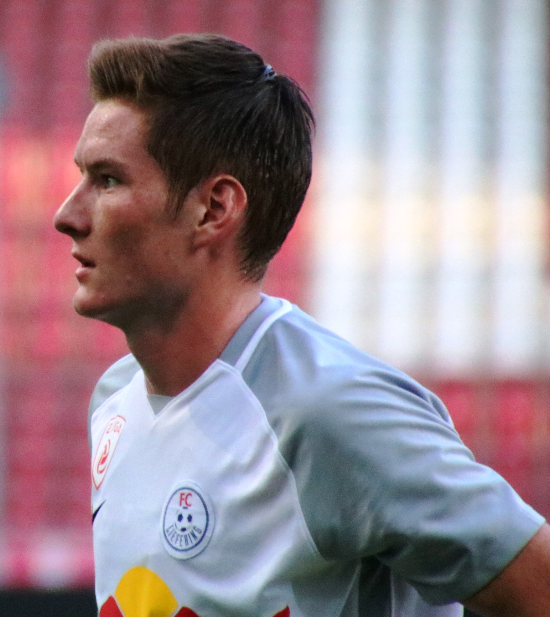 2nd league leaguematch 2nd round